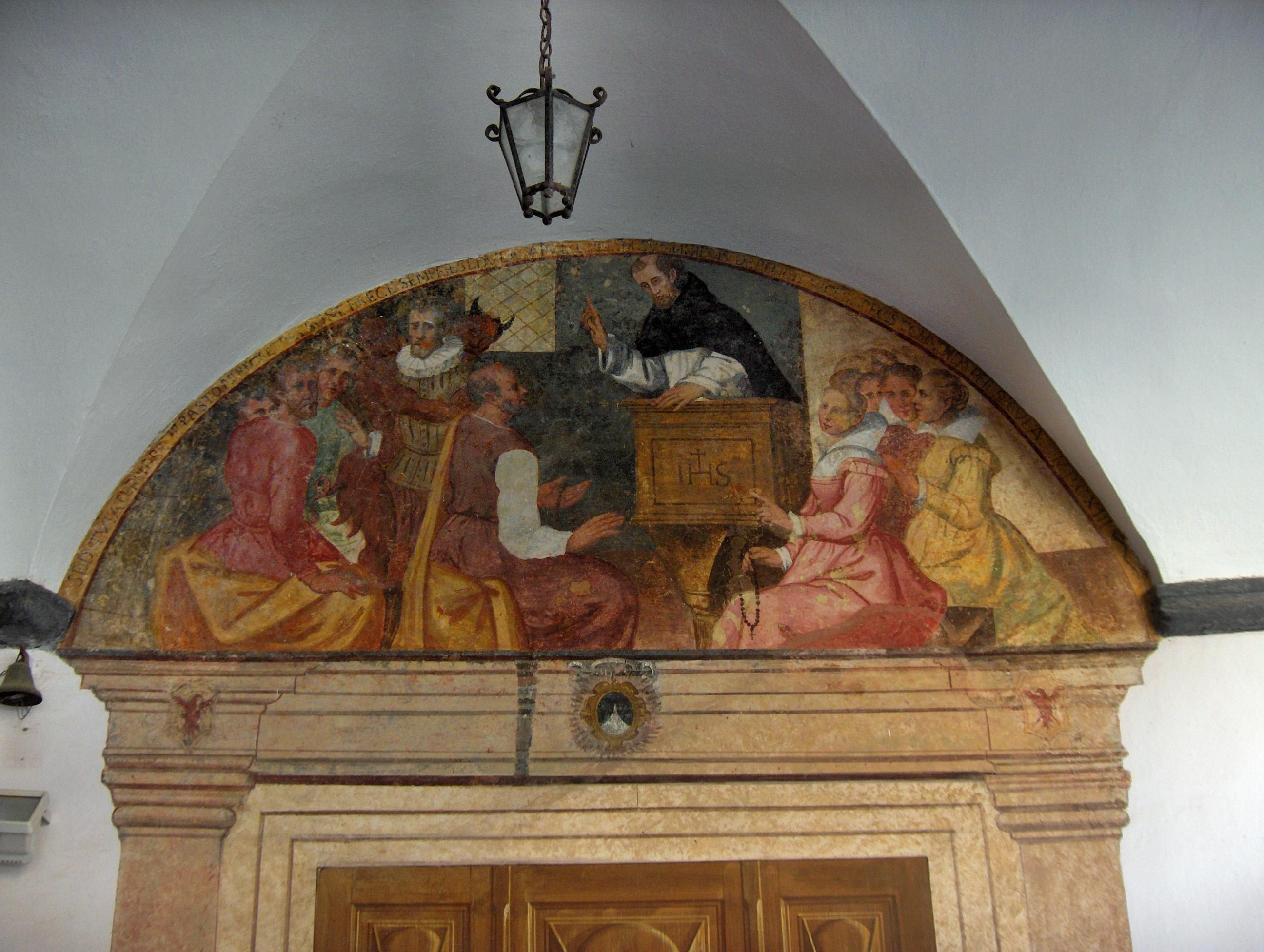 Fresco "St. Dominic preaching"; Dominican monastery; Taggia, Liguria, Italy